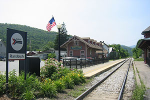 Randolph station in July 2006